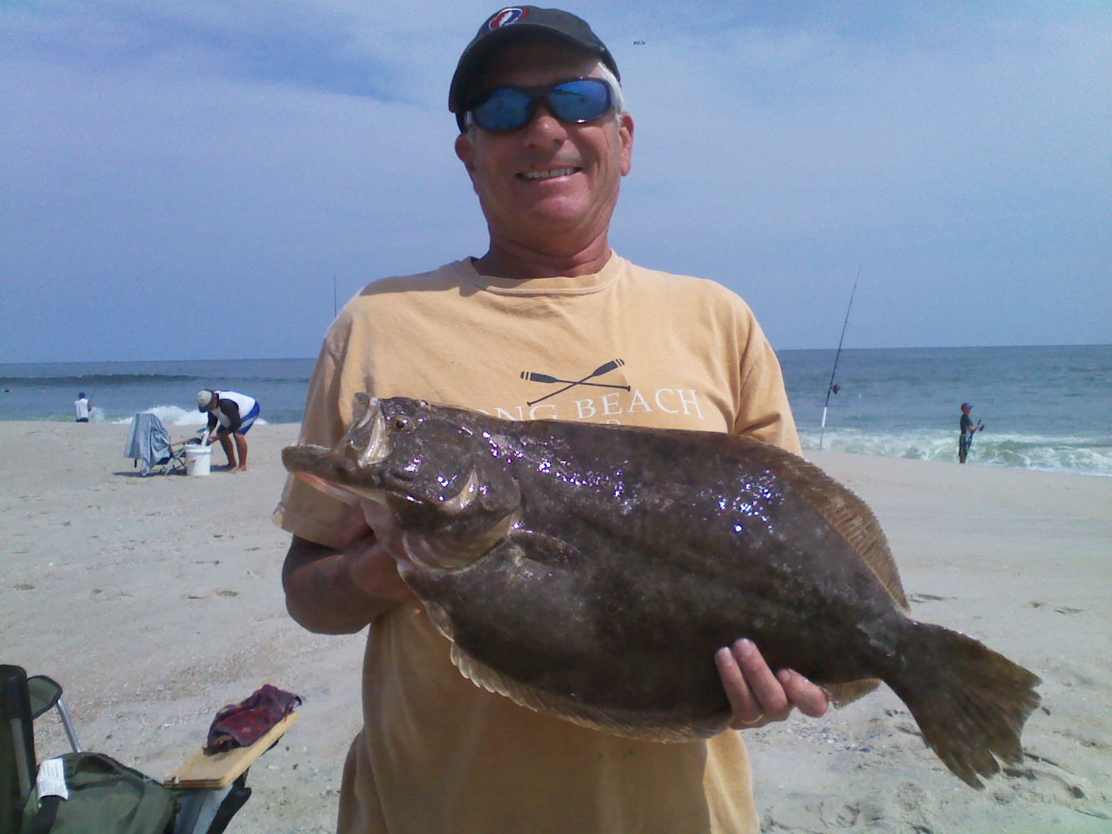 USA, Surf City New Jersey ( Long Beach Island) , by Mick Johnson